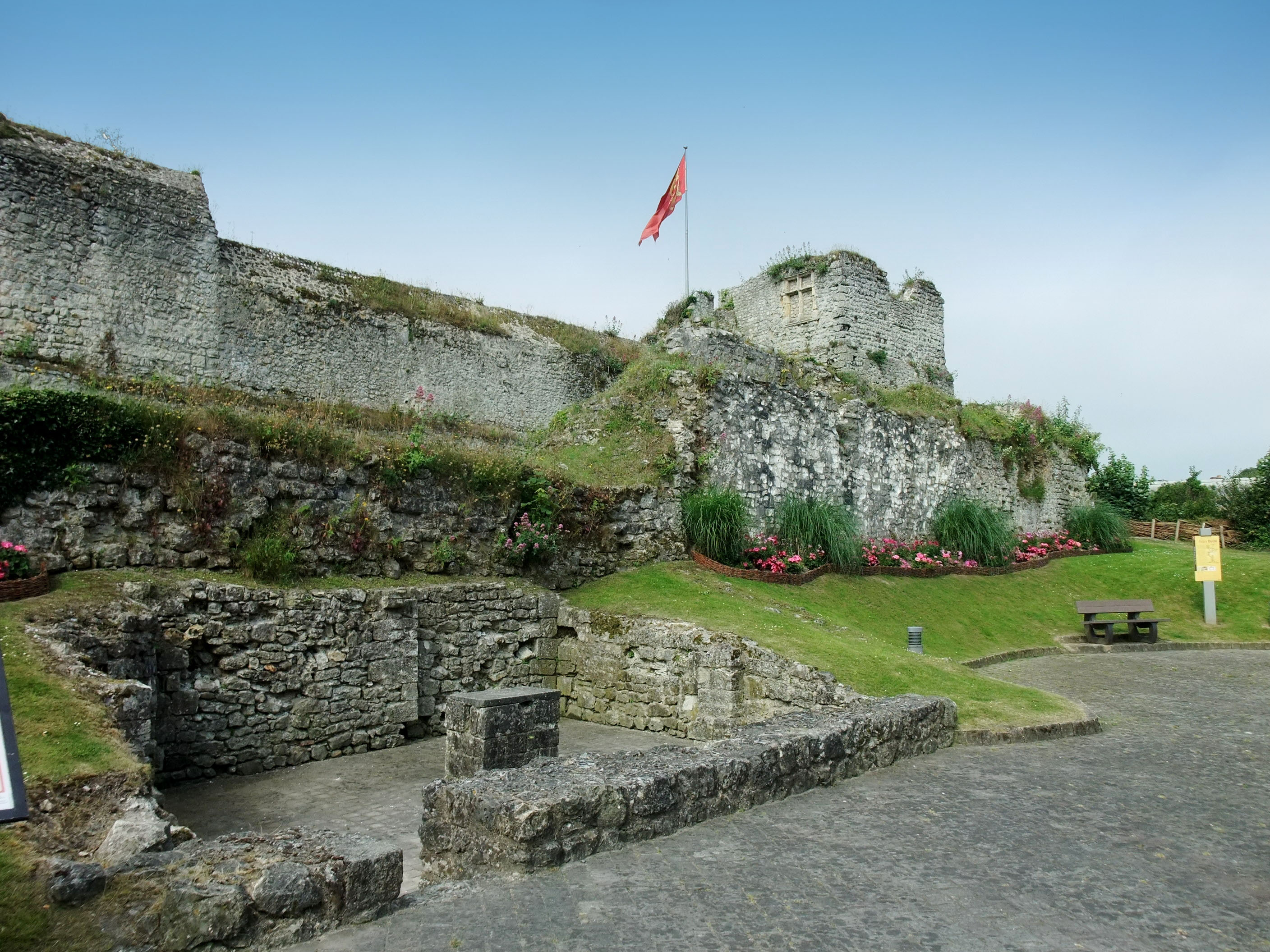 Fécamp, France: Ruins of Palais Ducal